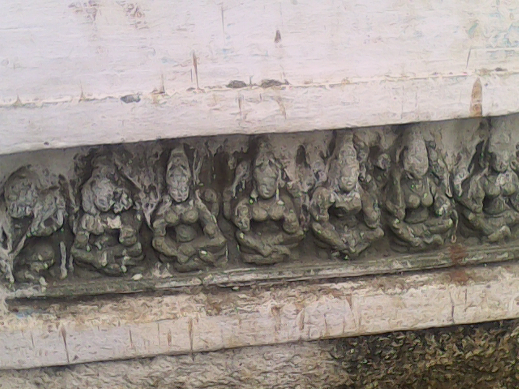 Sapta Matrikeyaru